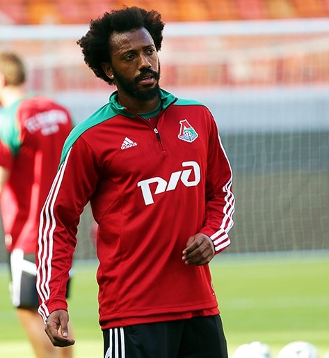 Manuel Fernandes 14